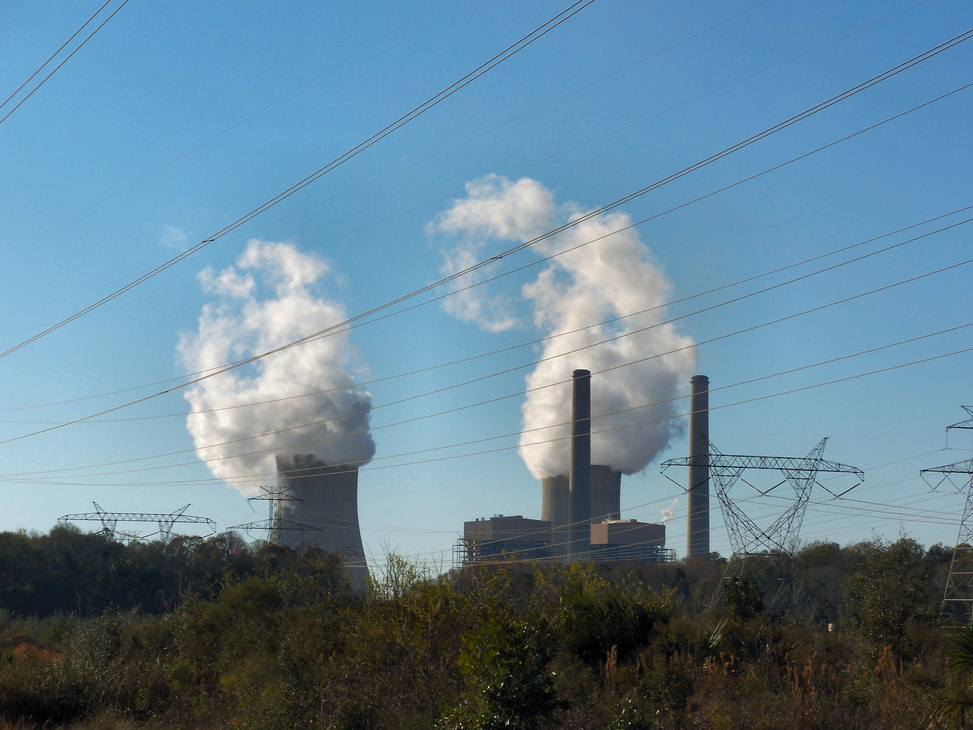 The two coal-fired power plants of the Crystal River North steam complex, in Crystal River, Florida